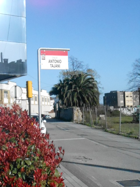 pic of Calle Tajani